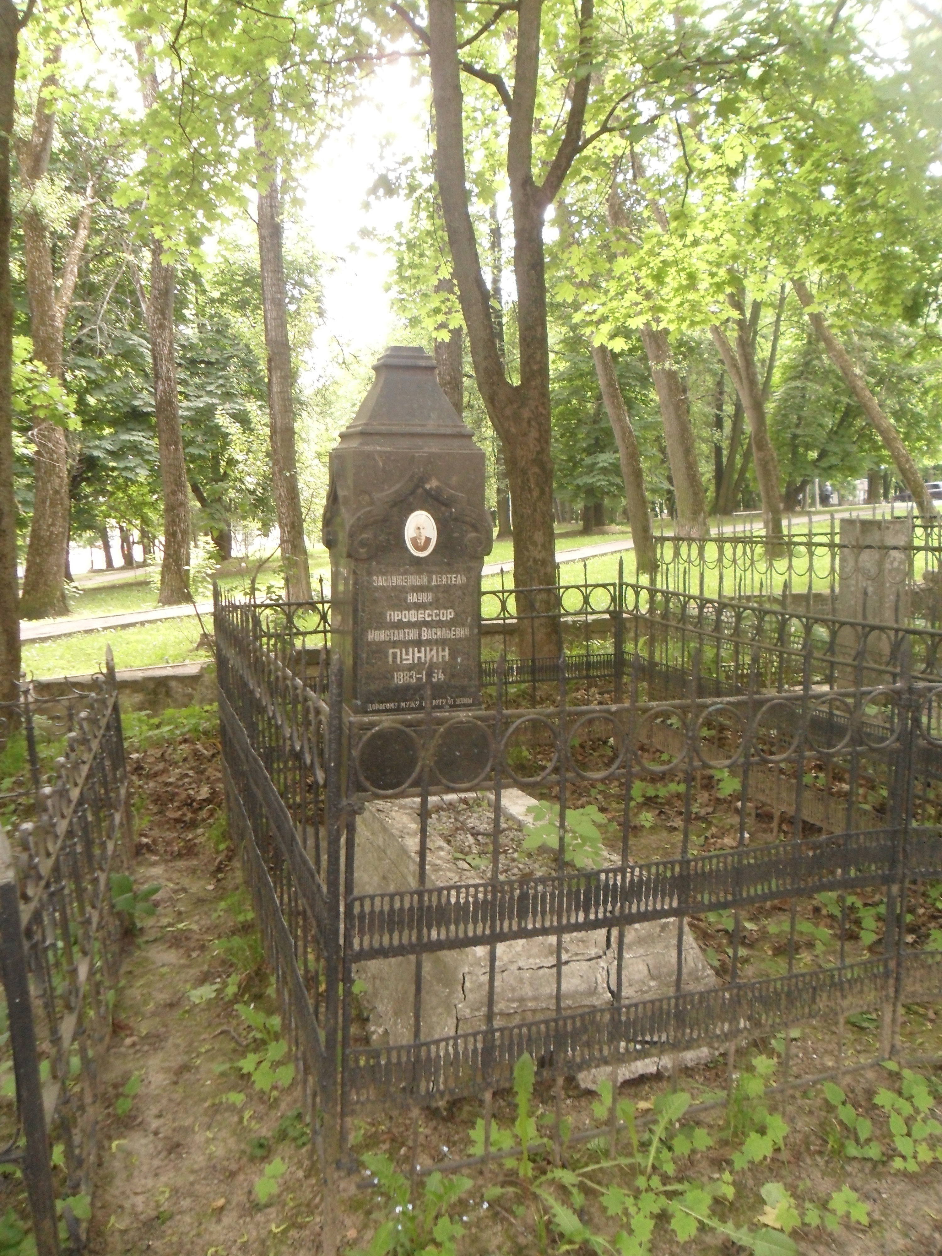 The tomb of Professor Konstantin Punin in the cemetery, "Blade" in Smolensk.